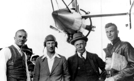 Pictured from left to right in the photograph: Captain Lester J. Brain (QANTAS pilot), Sir Charles Kingsford Smith (pilot of the Southern Cloud), S.A. Glassey and G.U. Allan (co-pilot of the Southern Cloud).